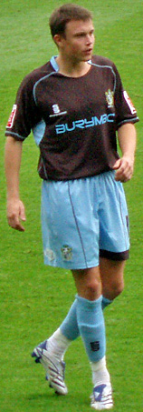 Andrew Mangan. Image cropped from original at flickr.